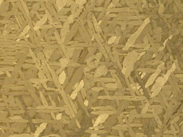 Widmanstätten pattern of the Staunton Meteorite, on display at the Smithsonian Museum of Natural History, Washington, DC